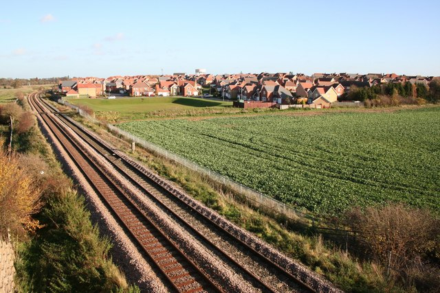 Quarrington Hill. Quarrington Hill housing development from the Sleaford bypass bridge 122470